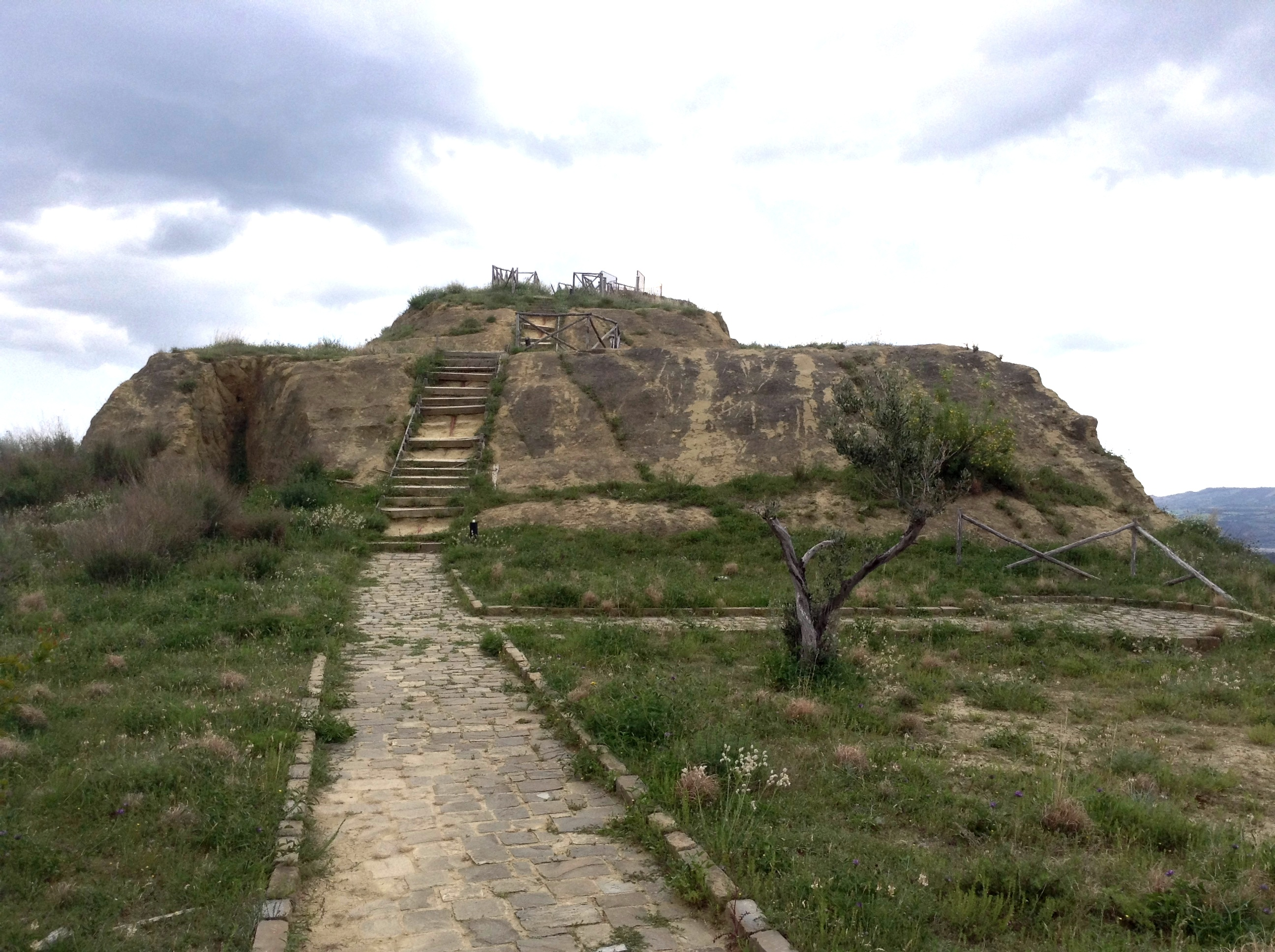 Rests of the Gotic Castle in Rabatana, Tursi